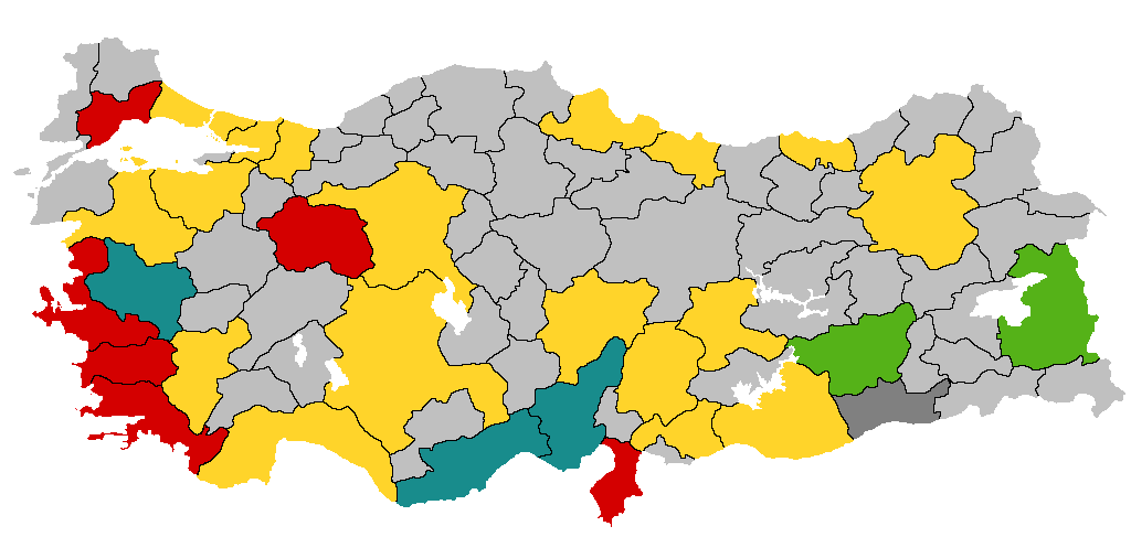 Metropolitan Municipalities at 2014 Turkish local electionsTürkçe: 2014 Türkiye yerel seçimlerinde Büyükşehir Belediyeleri